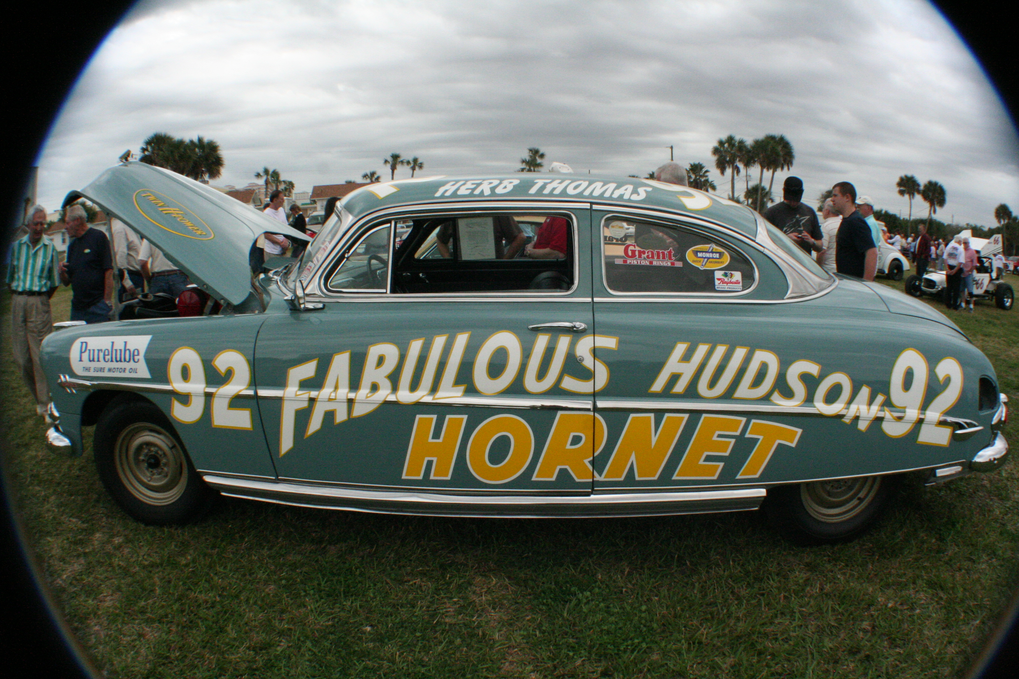 Herb Thomas Fabulous Hudson Hornet. Shot by "The Daredevil" at Daytona during Speedweeks 2008